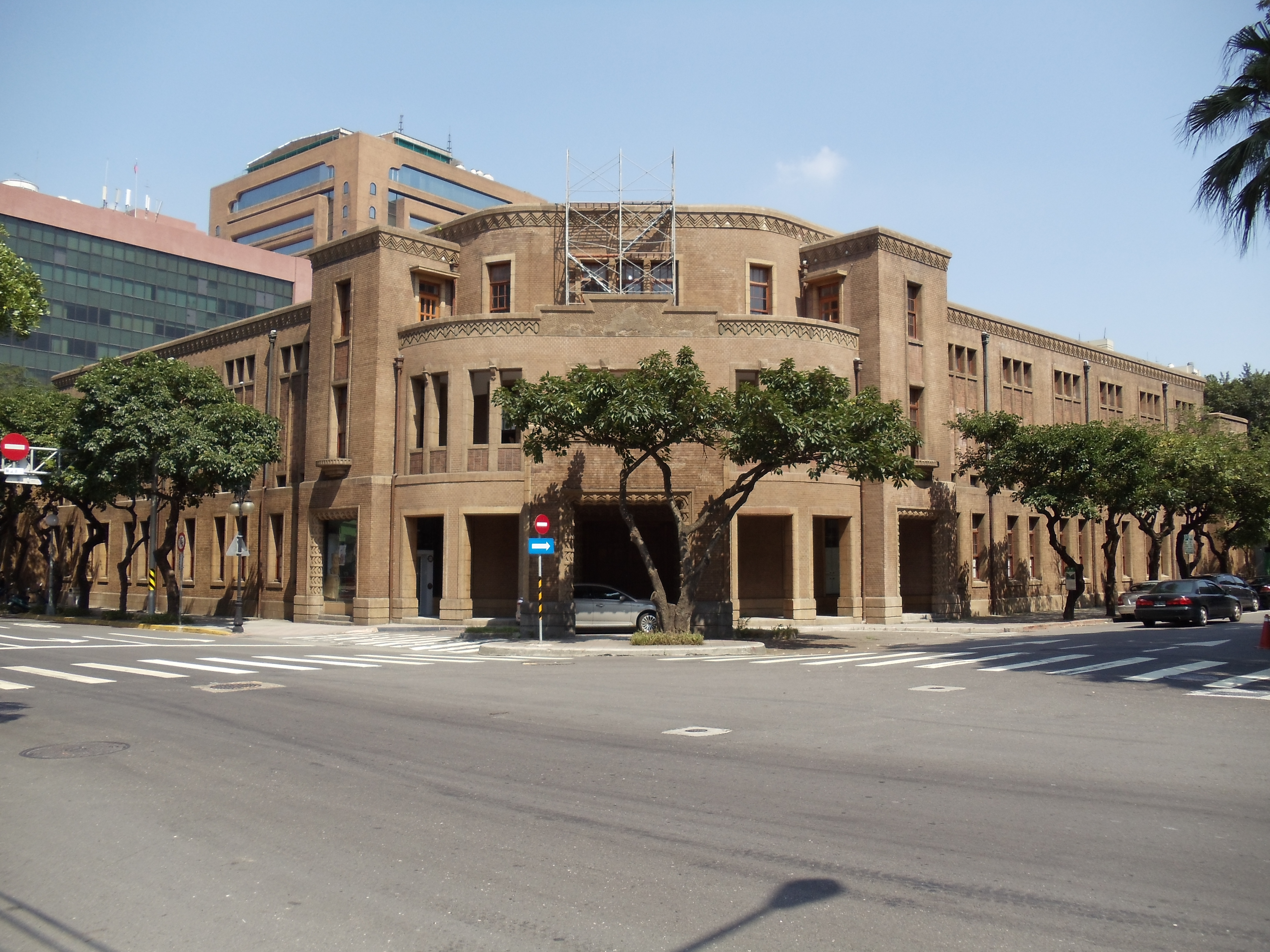 Original Taiwan Education Association Building (Former Location of United States Information Service's American Cultural Center in Taipei) located at No. 54 Nanhai Rd. Zhongzheng District, Taipei City.